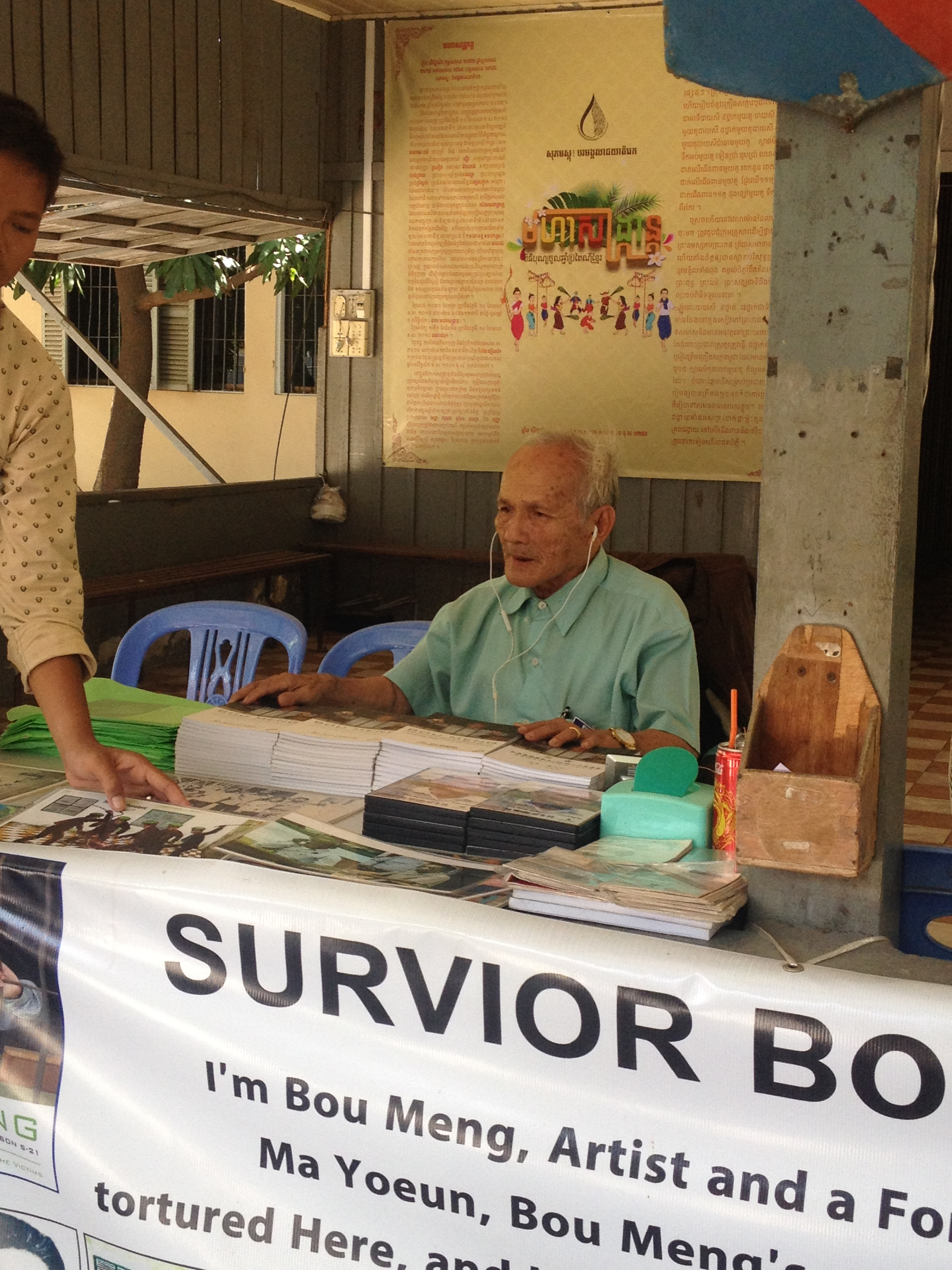 26th April 2018 - Bou Meng presenting the book about him (written by Huy Vannak) and DVD inside Tuol Sleng